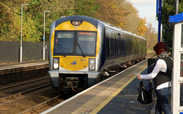 Train, Dunmurry station – The 11.27 Bangor – Portadown calling at Dunmurry station. Since the introduction of this new stock there has been a noticeable improvement in punctuality and fewer “we regret to announce” over the long-line public address.